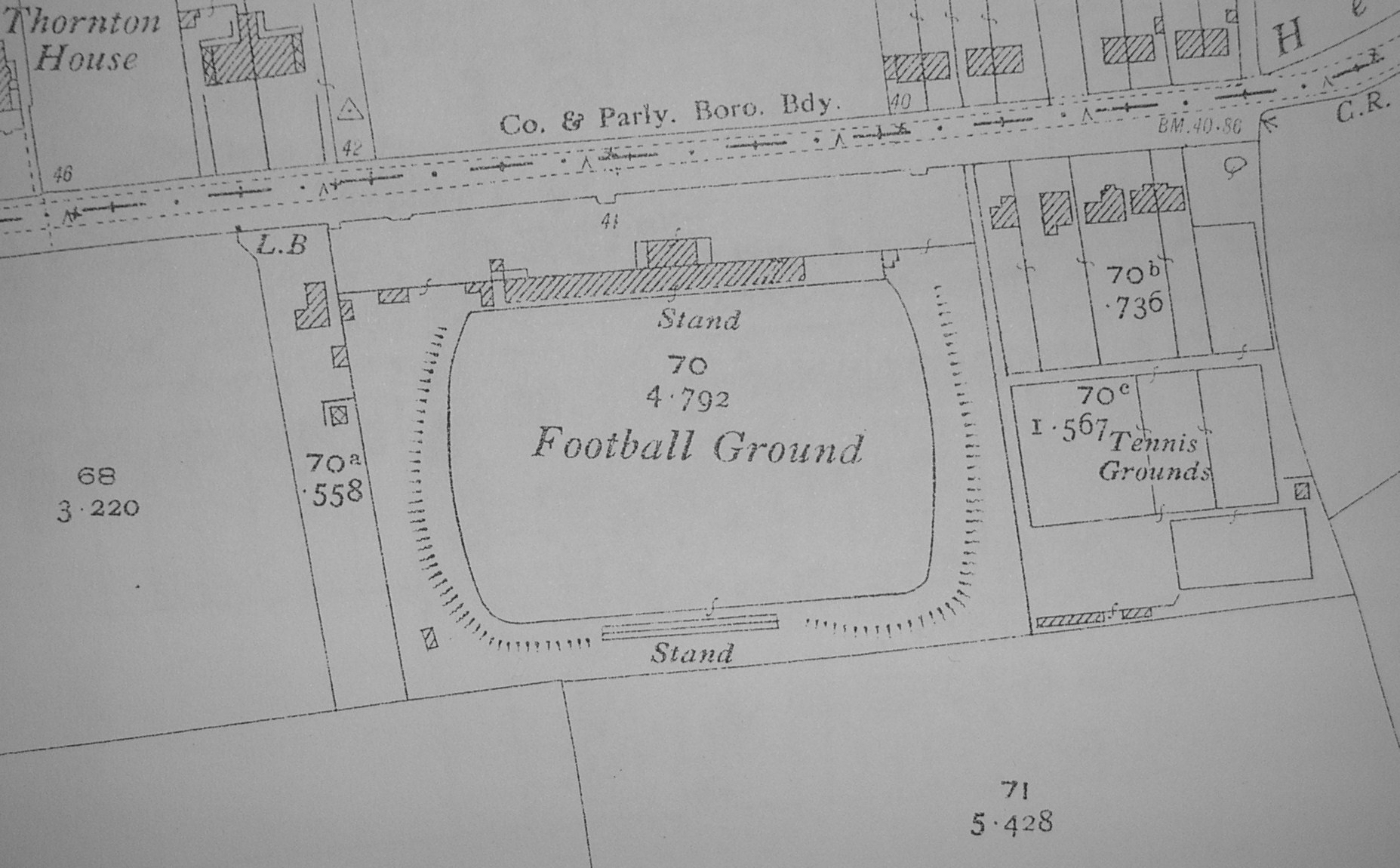 An Ordnance Survey map from 1931 showing Fulfordgate, former home ground of York City F.C. The road running east-west near the top of the map is Heslington Lane.